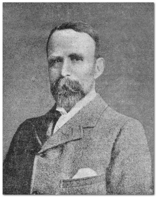 Irish philatelist William Russell Lane-Joynt as illustrated in the December 1921 issue of Stamp Collectors’ Fortnightly obituary article, reprinted at the Philatelic Database